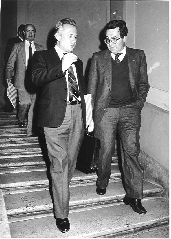 Romano Prodi and Luigi Granelli